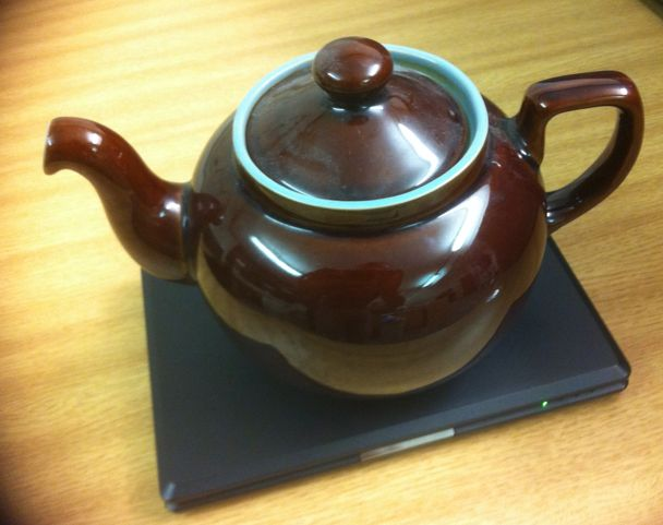 A Denby teapot glued to a netbook in order to provide RFC 2324-compliant (Hyper Text Coffee Pot Control Protocol) responses.